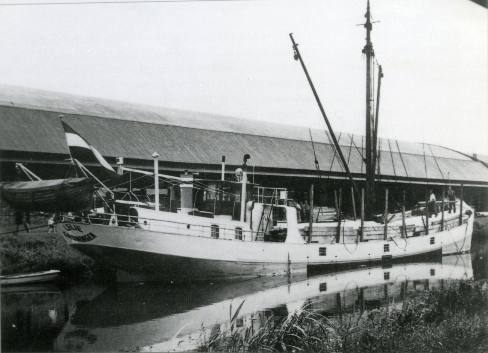 Coastal motor vessel LELIE (later IMO 5427186) built at N.V. Scheepswerf v/h J. Th. Wilmink & Co., Groningen, for Filippus Westers, Groningen (delivered: 14-07-1931), 1950 LELIE (Trijntje Westers-Van der Werp, Groningen), 1951 LELIE (Hendrik Westers, Groningen), 1954 LELIE (N.V. Wijnne & Barends' Cargadoors- en Agentuurkantoren, Kampen), 1959 LELIE (Jan Drenth, Groningen), 1960 INSULANER (A. Lührs Jr., Norderney), 1963 GERMO (Herbert Suhr, Gauensiek), 1978 HENRIETTE (renamed for German TV series "Kümo Henriette", Herbert Suhr, Gauensiek), 1979 GERMO (M. Selk, Gauensiek), 1982 GERMO (Kr. Sibal SA), 1984 sold to unknown owner, 1987 deleted from the register; collection J. Robert Boman (1926–2002) owned by Sjöhistoriska museet.